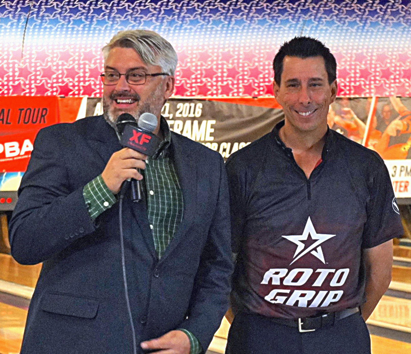 PBA Xtra Frame analyst and commentator Mike Jakubowski interviewing ten-pin bowler Michael Haugen, Jr. after Haugen won a bowling tournament. Middletown, Delaware, U.S.